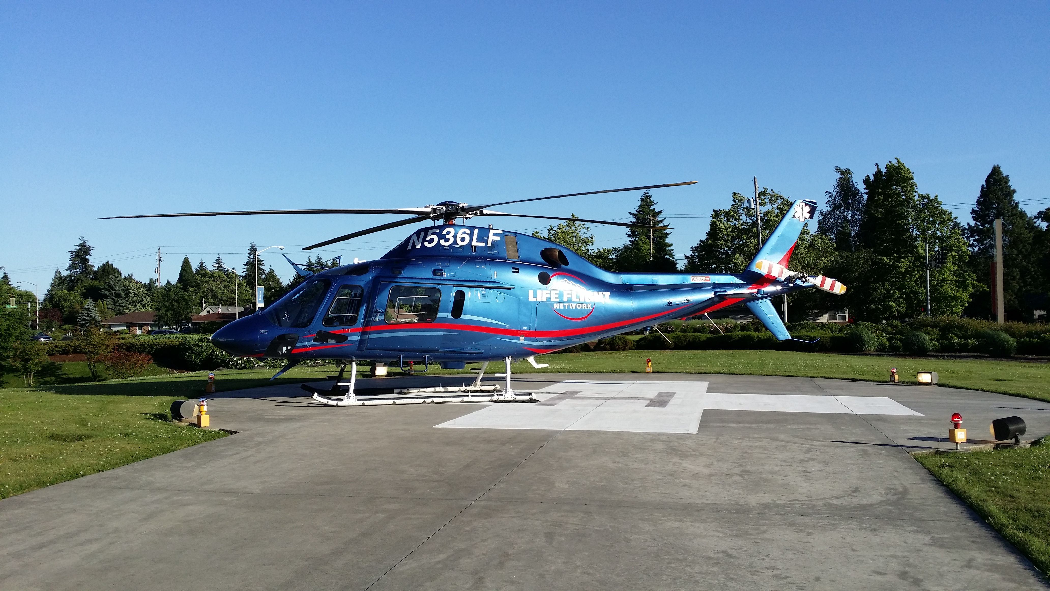 Life Flight Network AW119Kx N536LF on the helipad of PeaceHealth Southwest Medical Center - Vancouver, WA